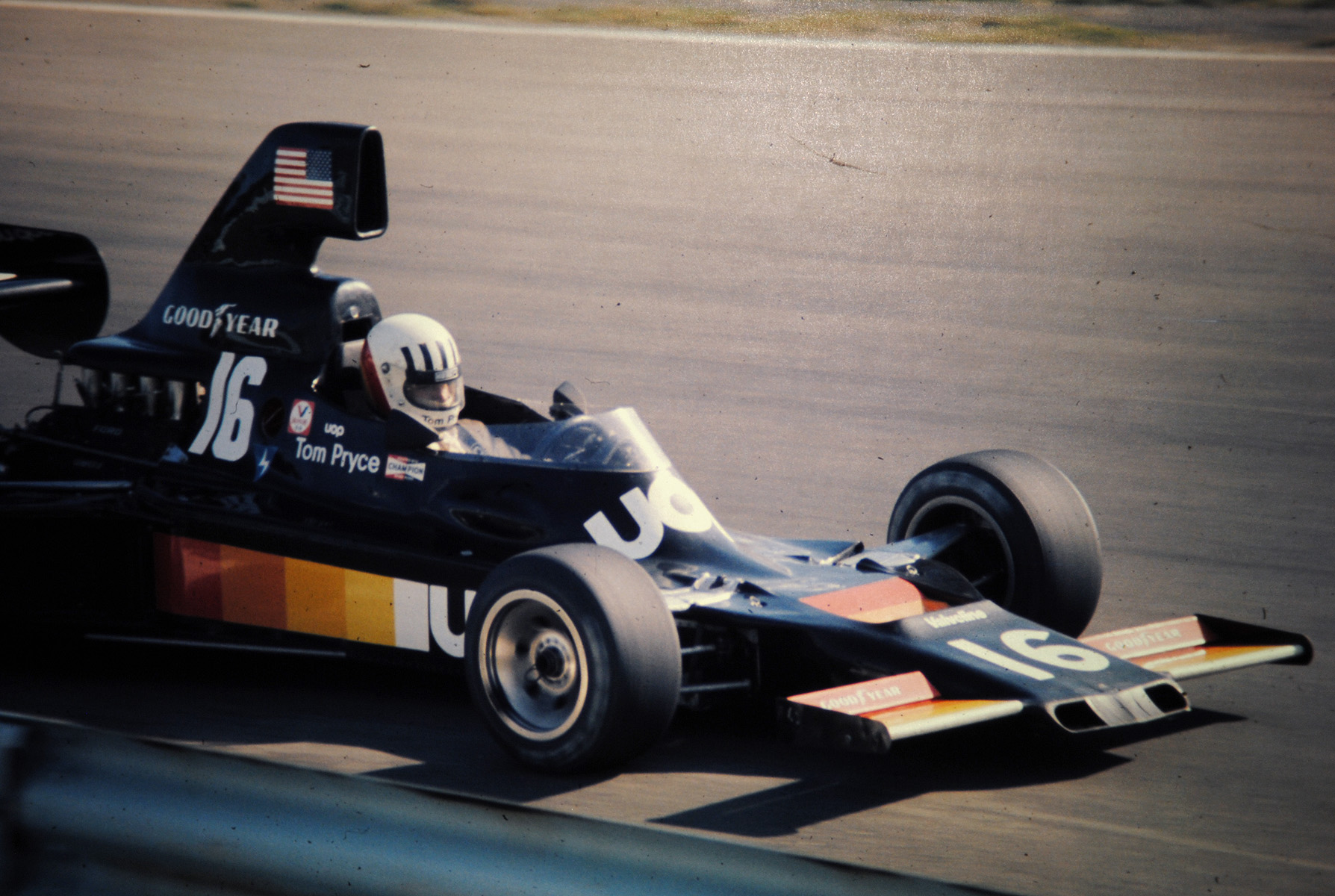 Tom Pryce, driving his UOP Shadow Ford at the 1975 United States Grand Prix.